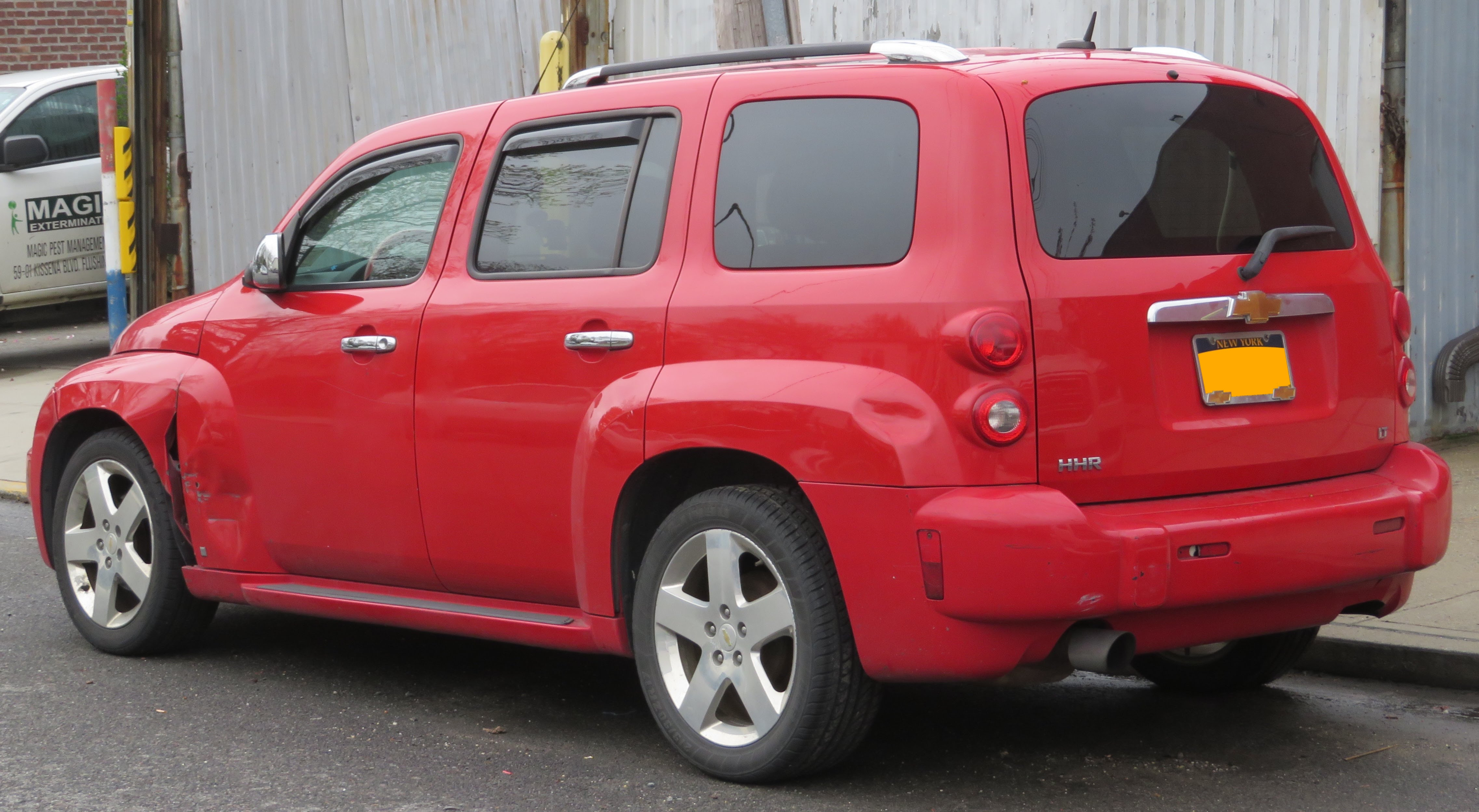 In Queens, New York